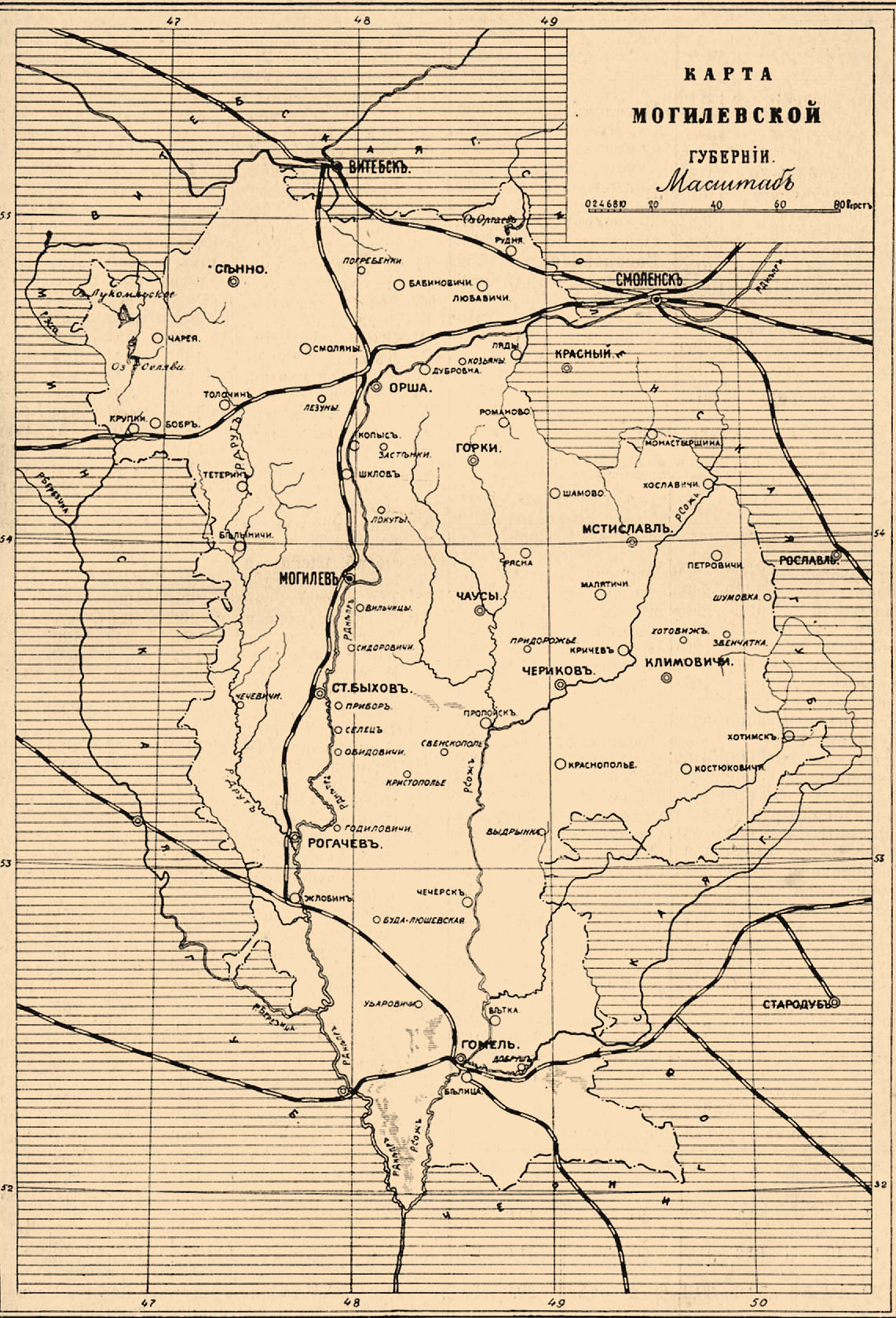 Illustration from Brockhaus and Efron Jewish Encyclopedia (1906—1913); Russian Imperial Governorate of Mogilev